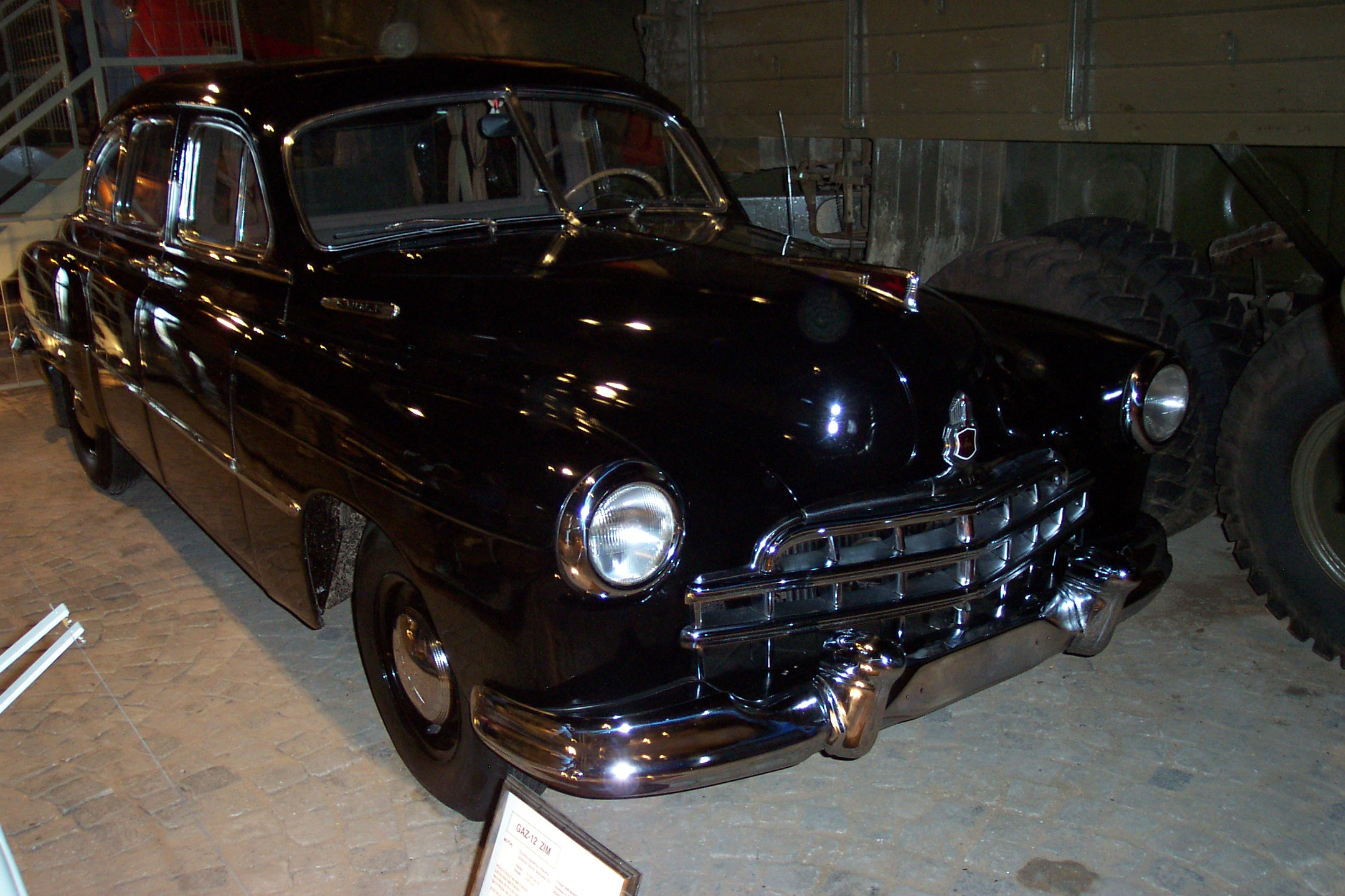 Historical automobile (GAZ-12 ZIM) in VTM Lešany museum